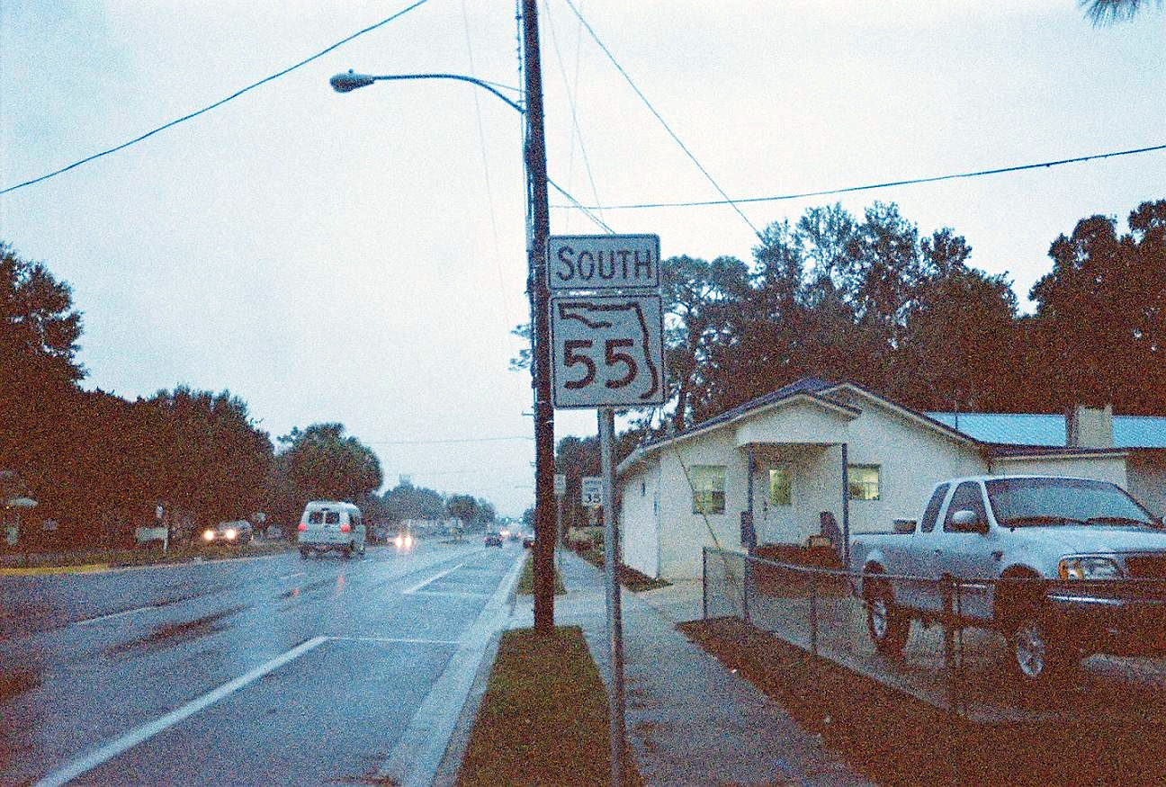 Photograph of a rare Florida State Road 55 sign, taken along US 19-98 on a rainy autumn in Chiefland, Florida, on November 28, 2005.